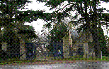 photographed by uploader, who releases into public domain